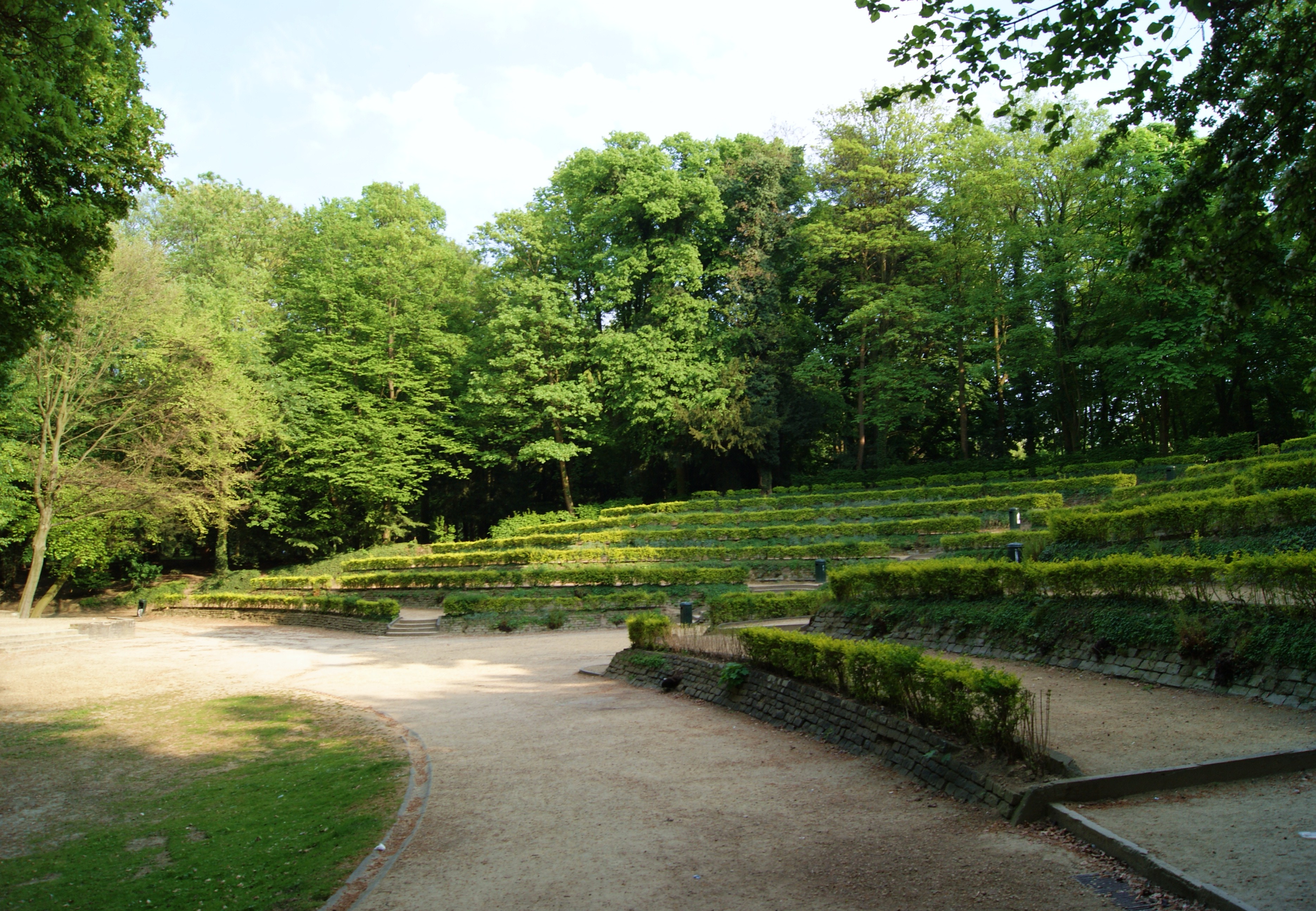 One of the park walks in Parc d'Osseghem (Ossegempark), Brussels (2011). Next to it is the open-air theater that can host up to 3,000 people. The parc was created by the landscape architect Jules Buyssens for the World Fair 1935.